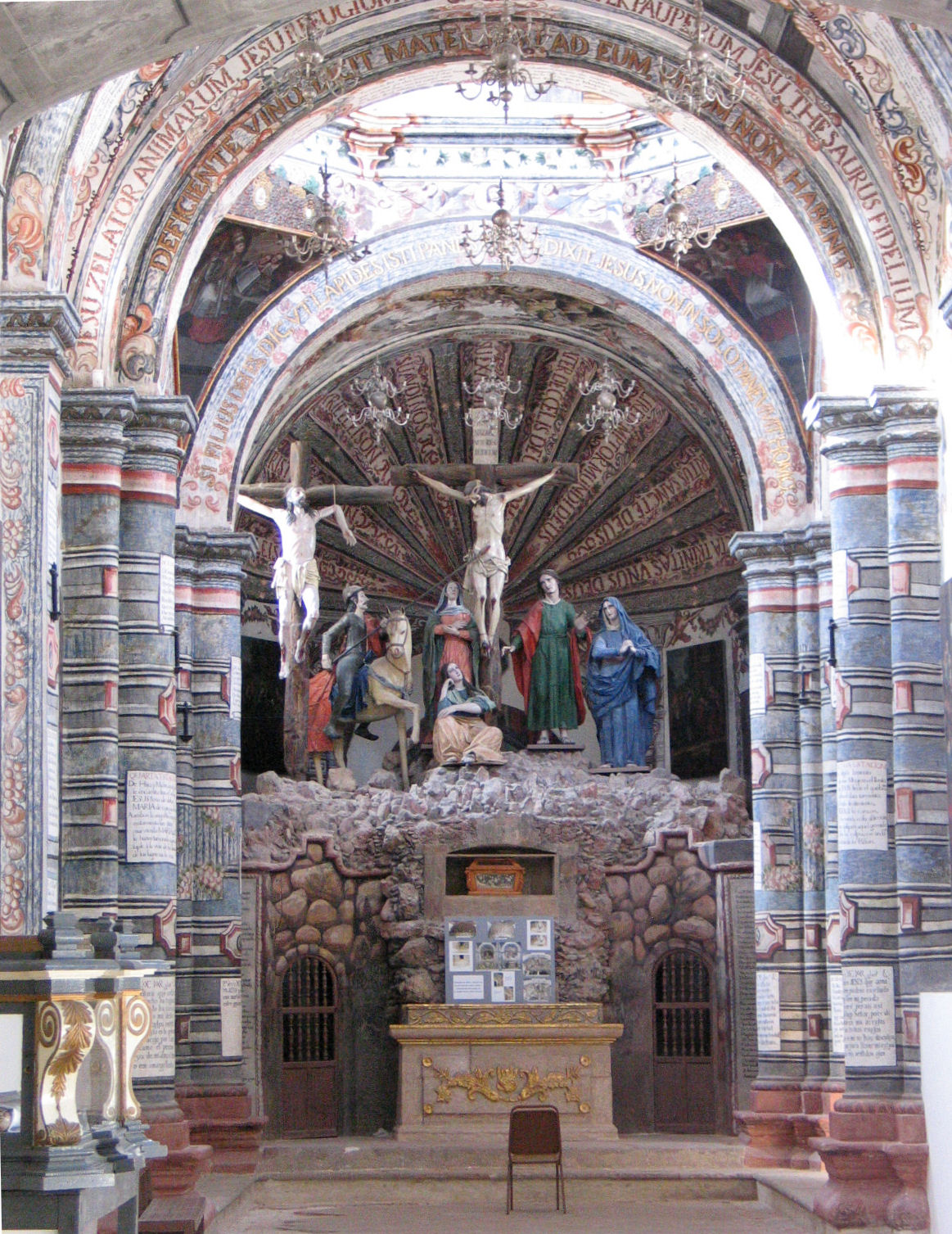 Holy Sepulchre chapel at Atotonilco sanctuary